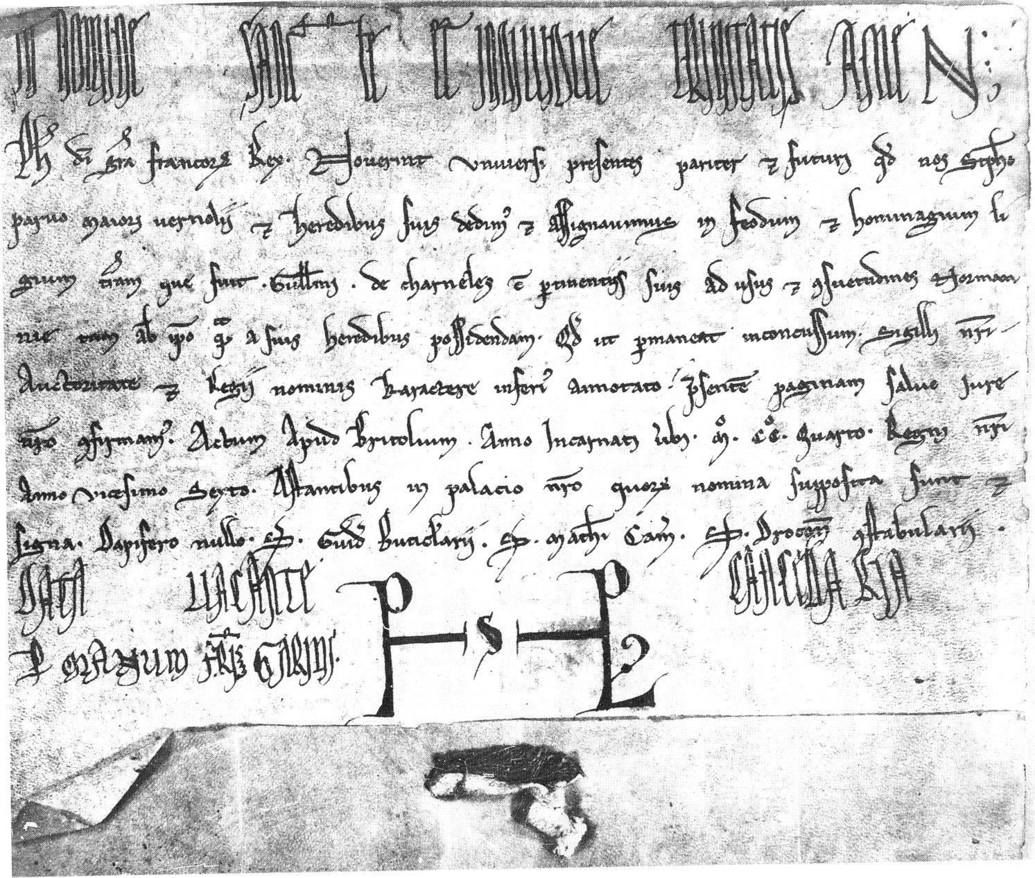 A charter of king Philip II of France. Paris, Archives Nationales, J 396, Nr. 1.